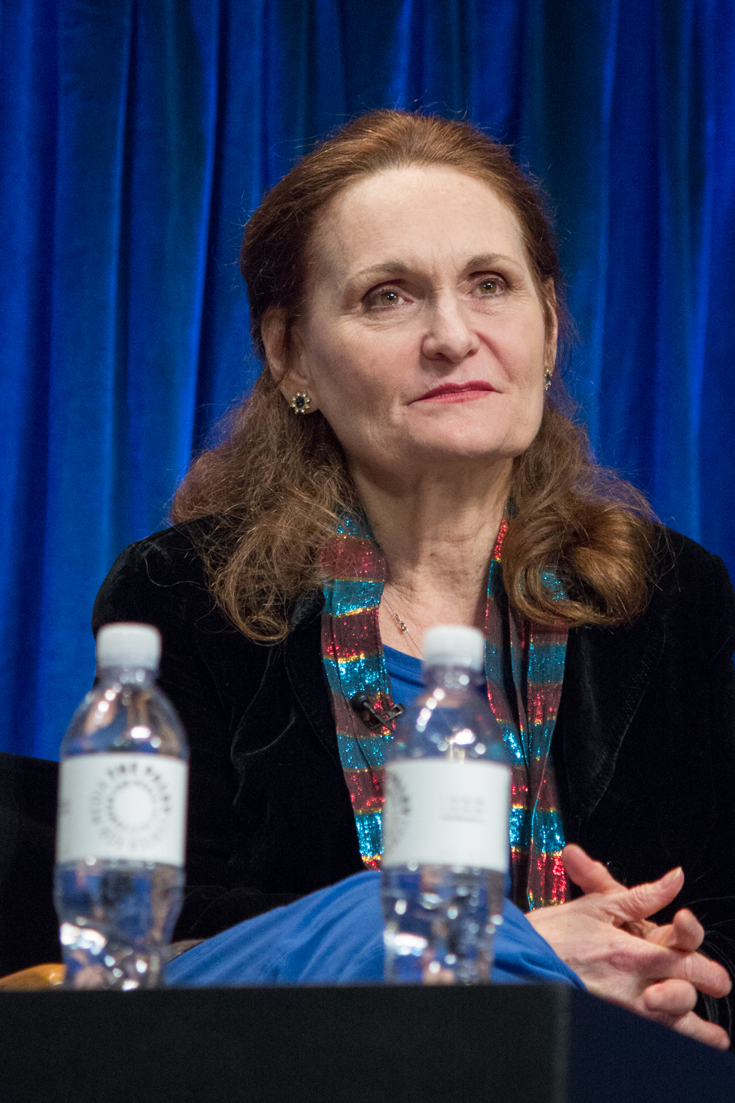 Actress Beth Grant at PaleyFest 2013's panel for "The Mindy Project"